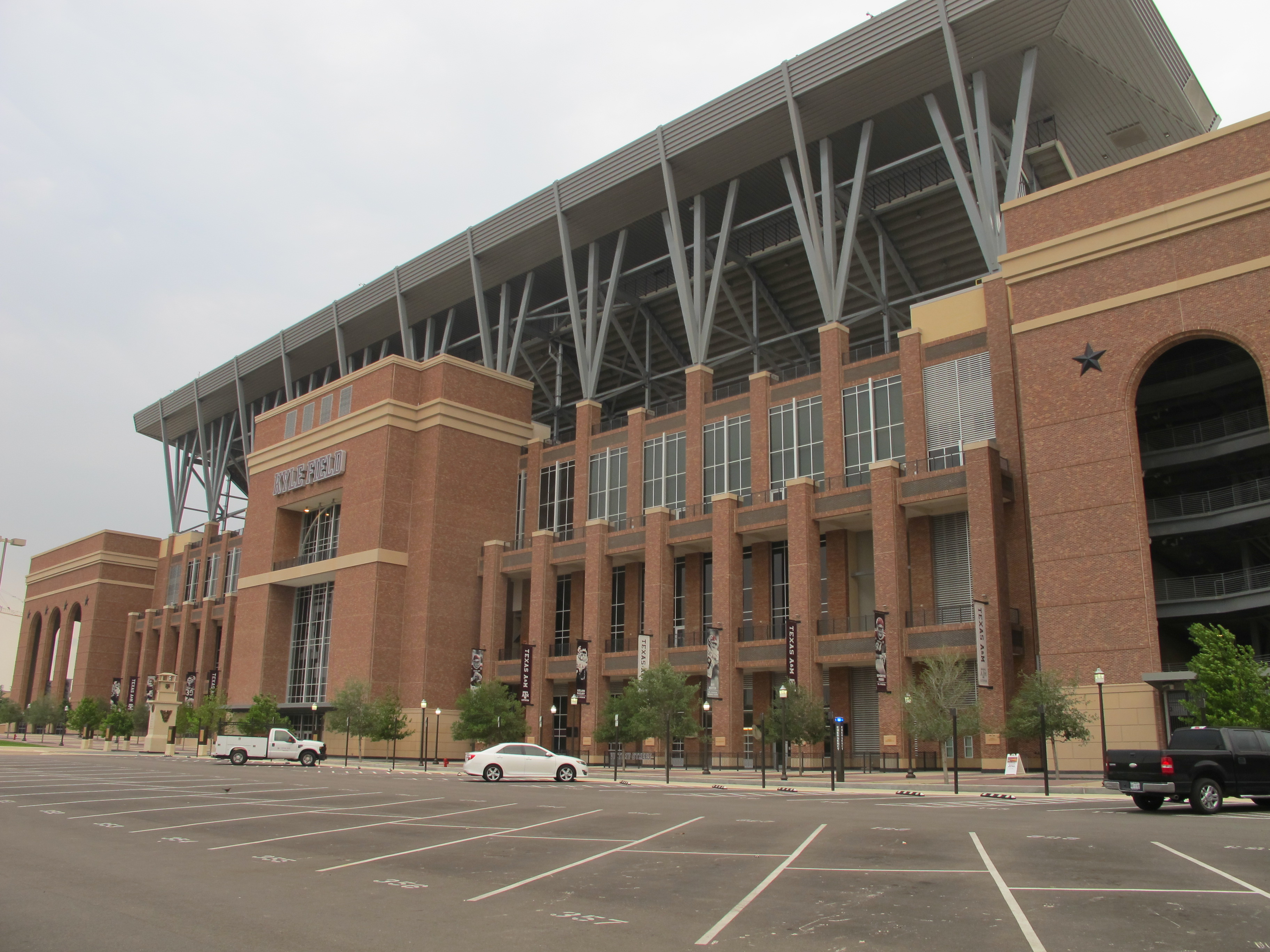 Kyle Field's New Facade, April 2016